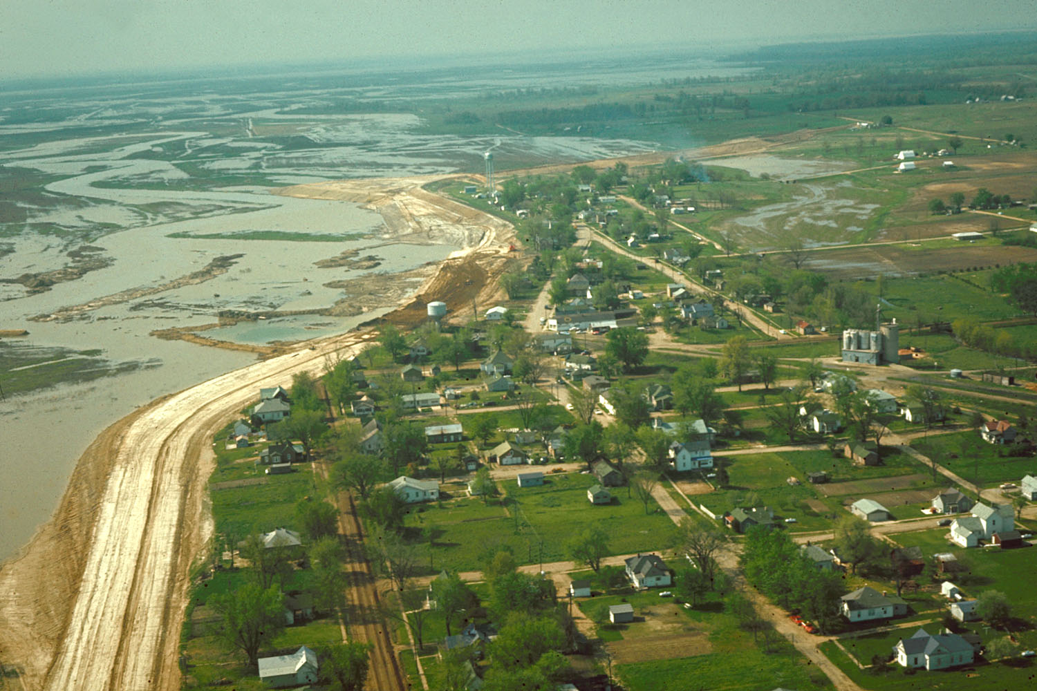 Aerial view of Keyesport, Illinois, USA. The photograph was taken in 1967 or 1968 after the Carlyle Lake Dam had been completed and Carlyle Lake was filling. The town now lies directly on the lakeshore.